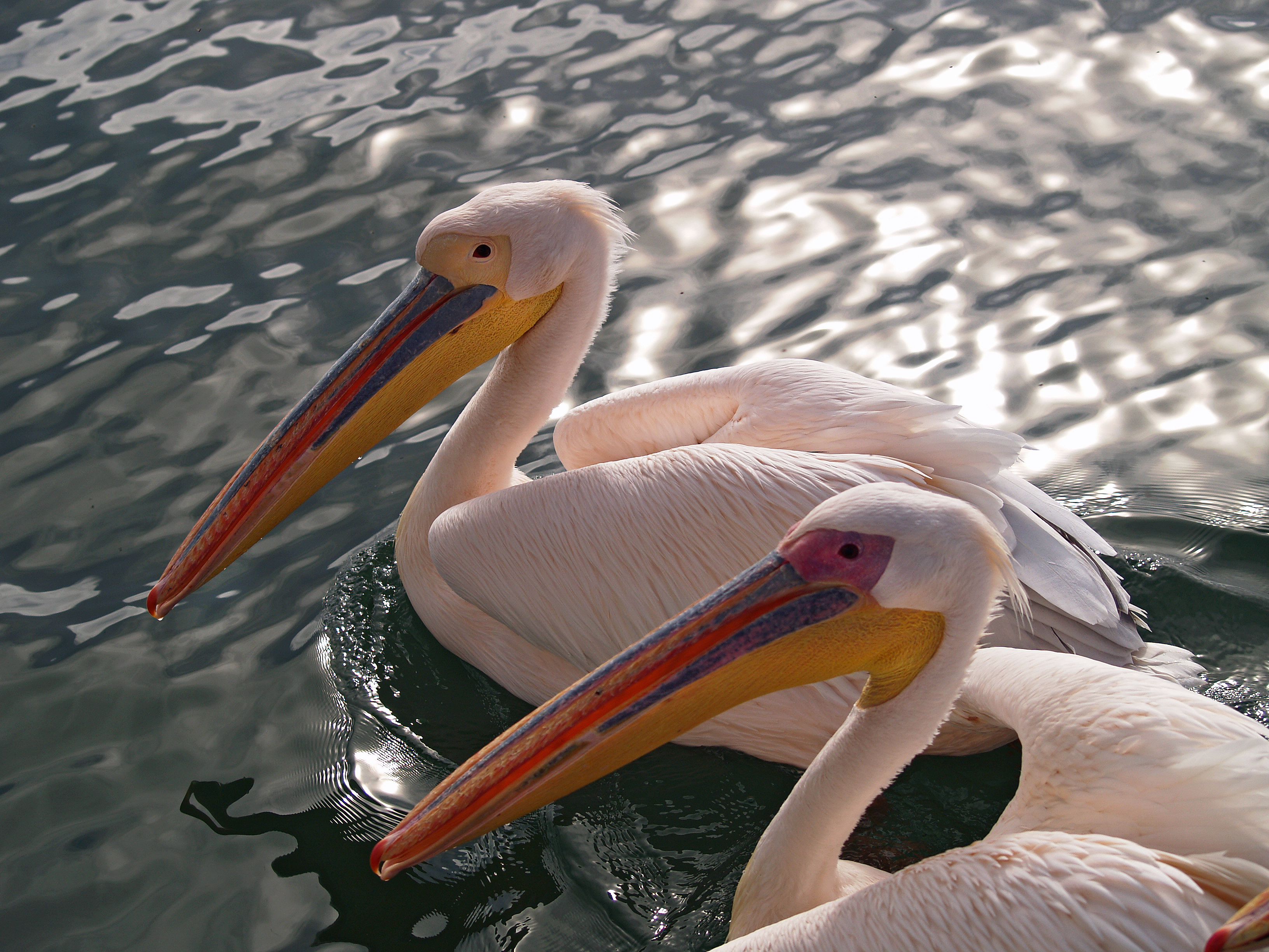 A pair of Great White Pelican (also known as the Eastern White Pelican or White Pelican) in Walvis Bay, Namibia. The male (front) has pinkish skin on its face and the female has orangish skin on its face.